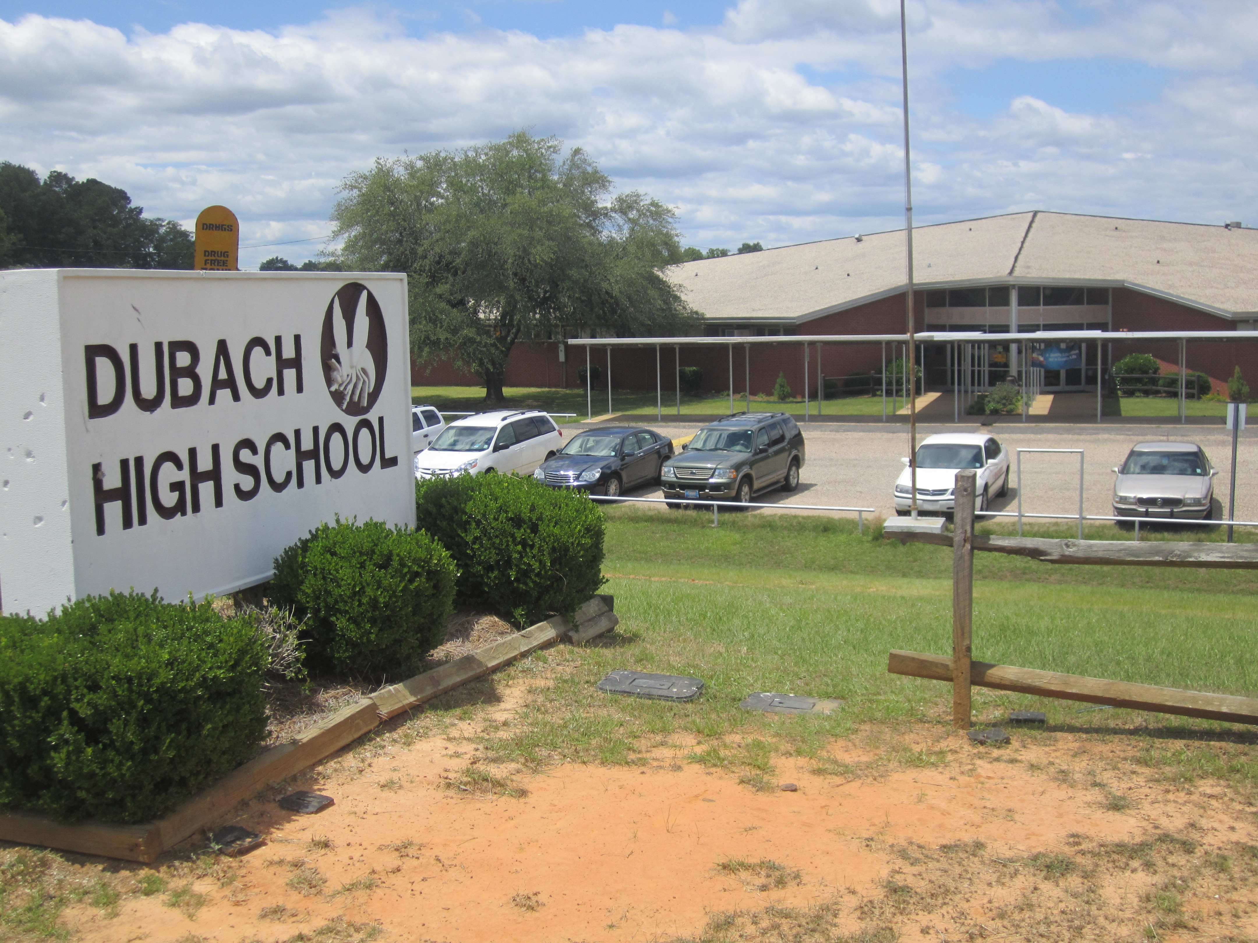 I took photo of Dubach, LA, High School with Canon camera.